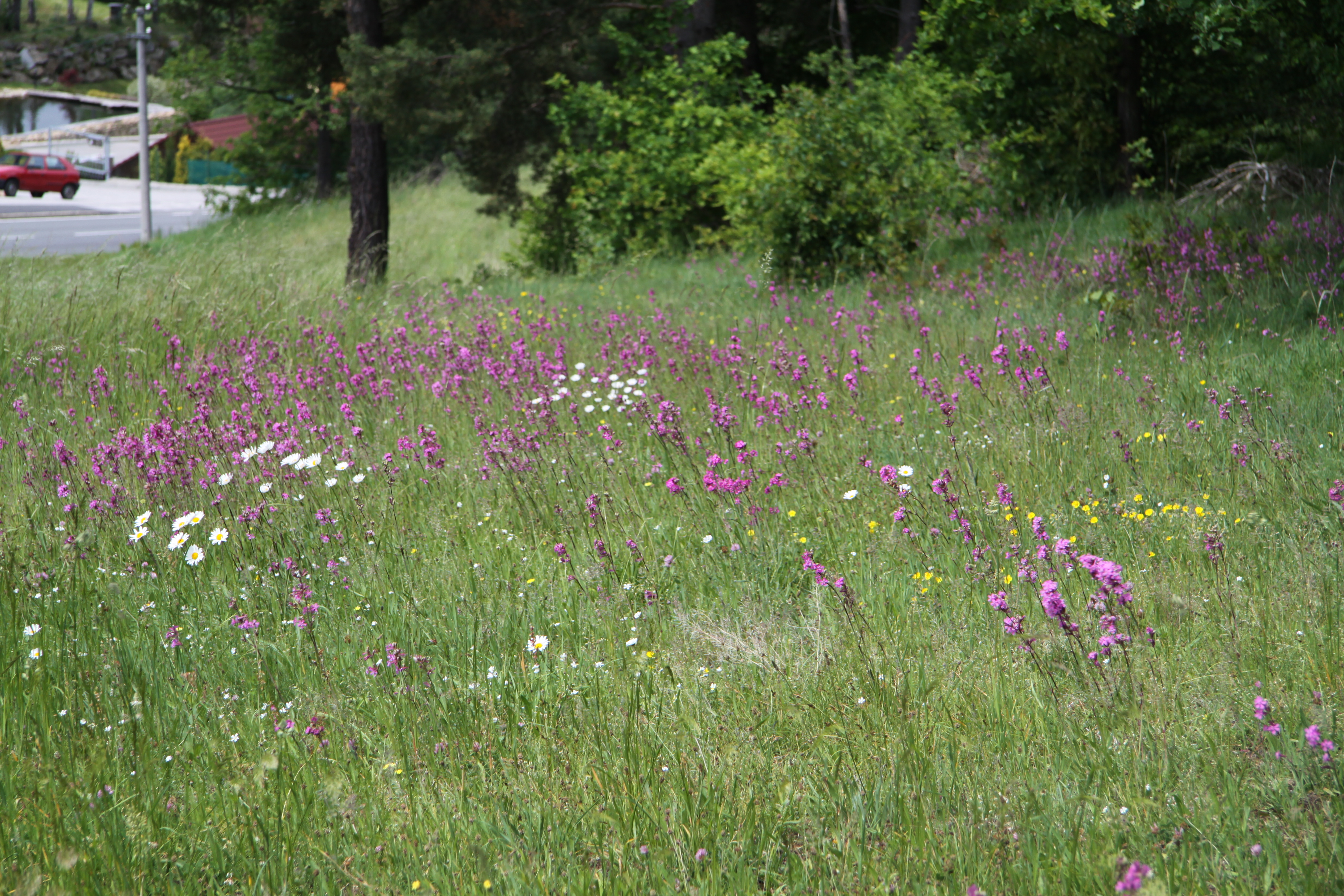 Viscaria vulgaris in natural monument Irův dvůr in Prachatice, Prachatice District, Czech Republic - Google Maps - Google Earth